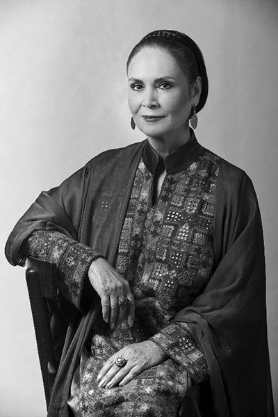 Photo by: Saghar Barakat